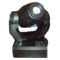 DMX Moving Head icon depicting specifically an Acme Imove 250S.